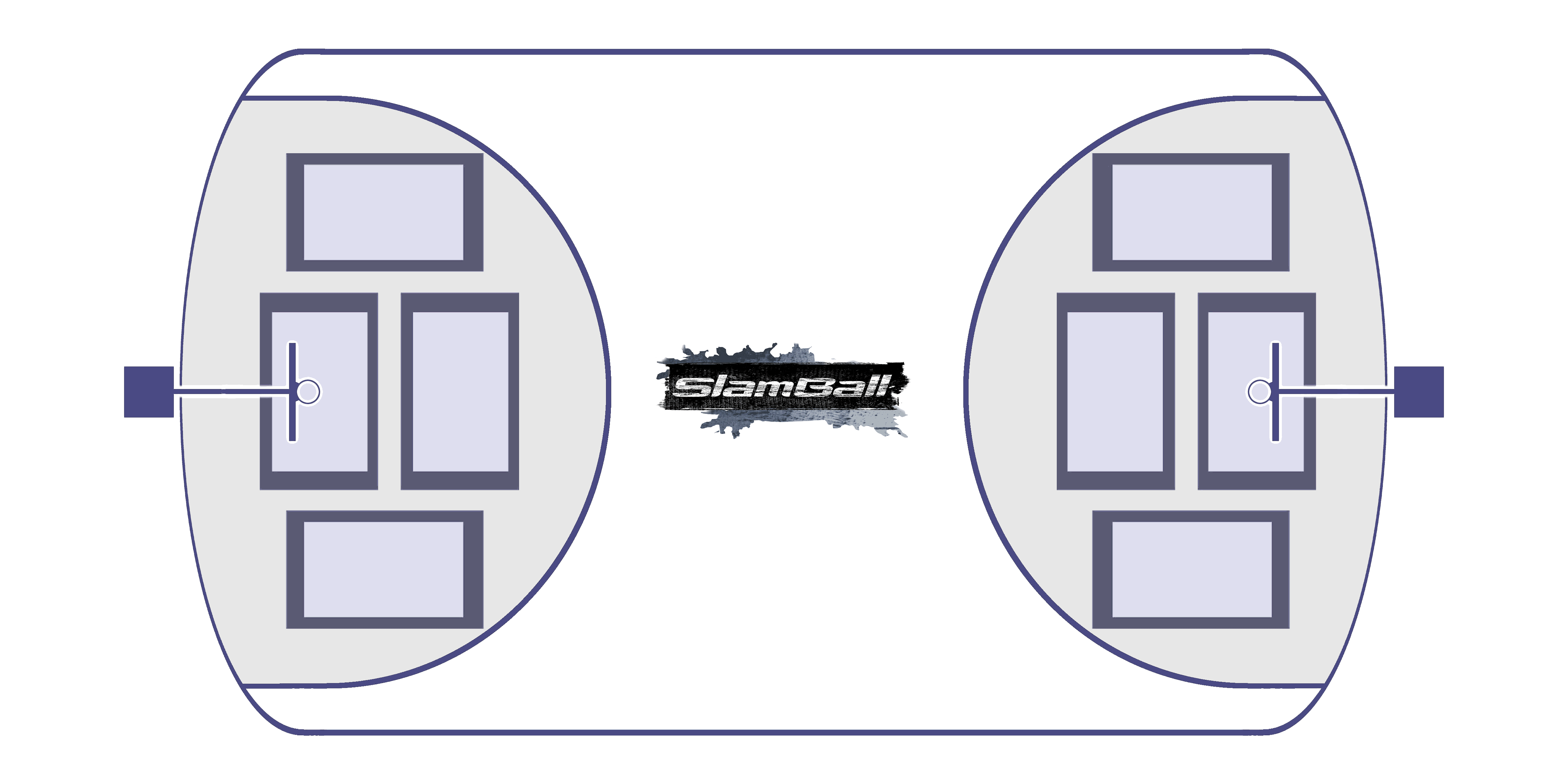 This is a picture of the original court concept I, Mason Gordon, had in 2001 in Los Angeles. Contents 1 History of Image:Court plan.jpg 2 Licensing 3 Original upload log 4 Original upload log History of Image:Court plan.jpg 2008-04-24T09:34:05Z タチコマ robot (Talk